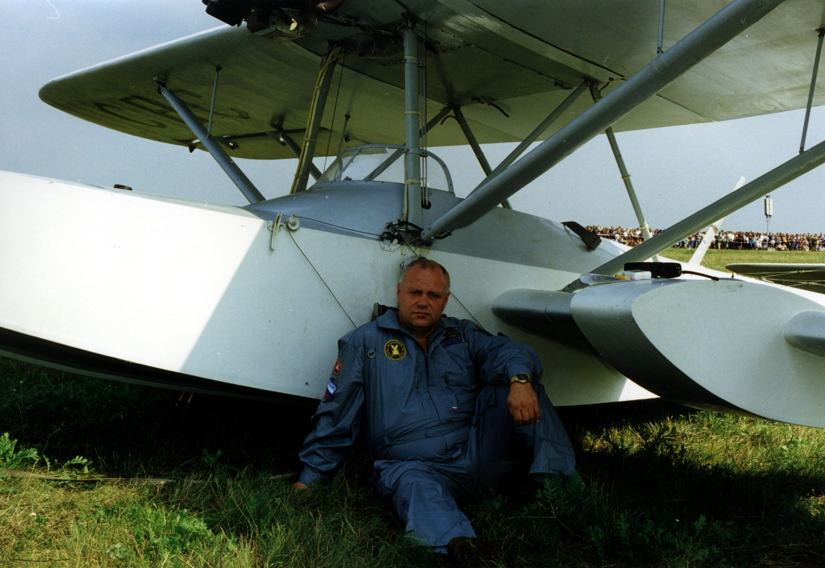 Yury Sheffer - Soviet/Russian test pilot of Tupolev bureau and the Gromov Institute, cosmonaut of the Buran programme, Hero of Russian Federation (1998), with the Shavrov Sh-2 light amphibian aircraft.